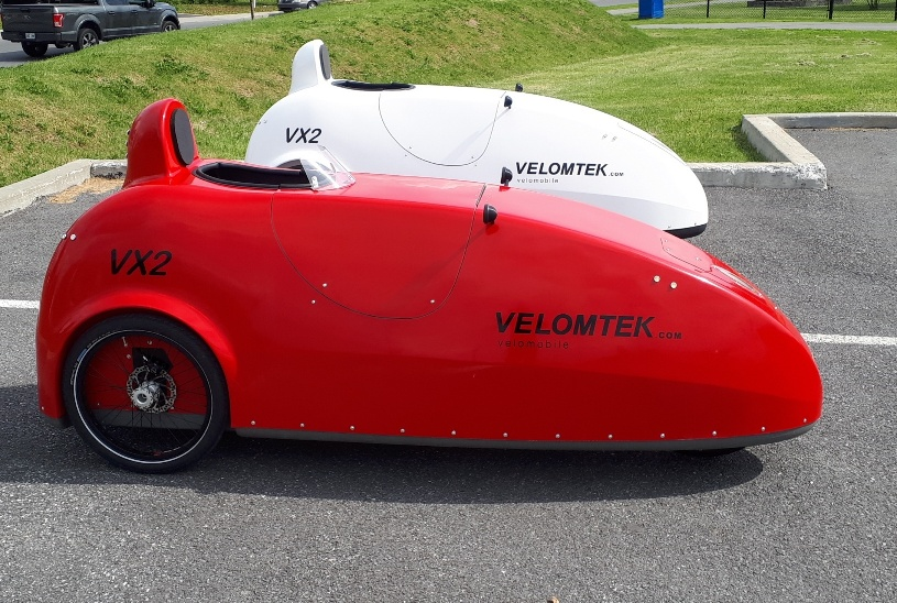 VX2 velomobile